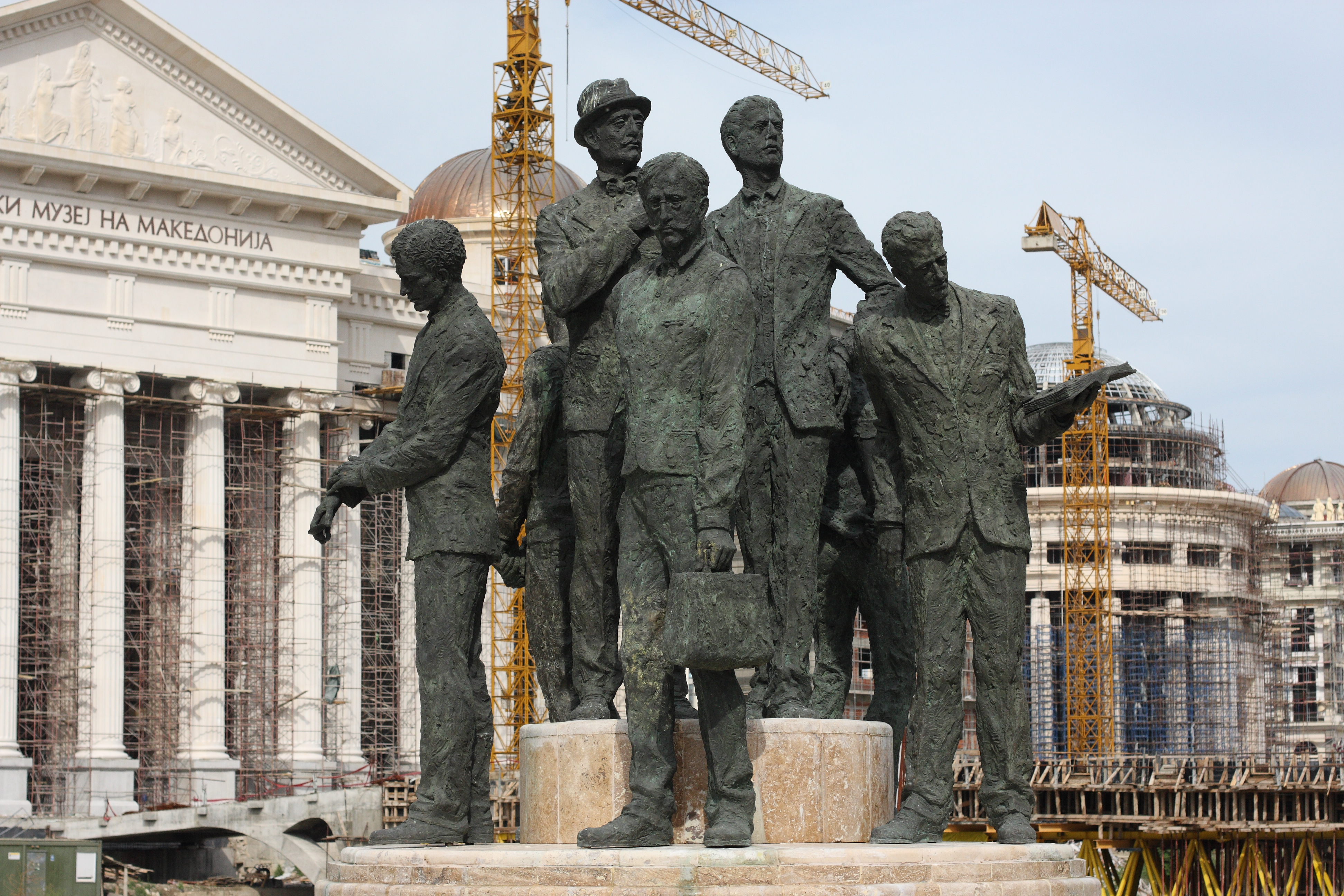 Monument of the Gemidžii, Skopje